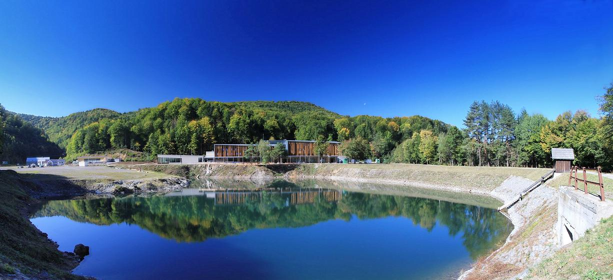 Hotel Salamandra